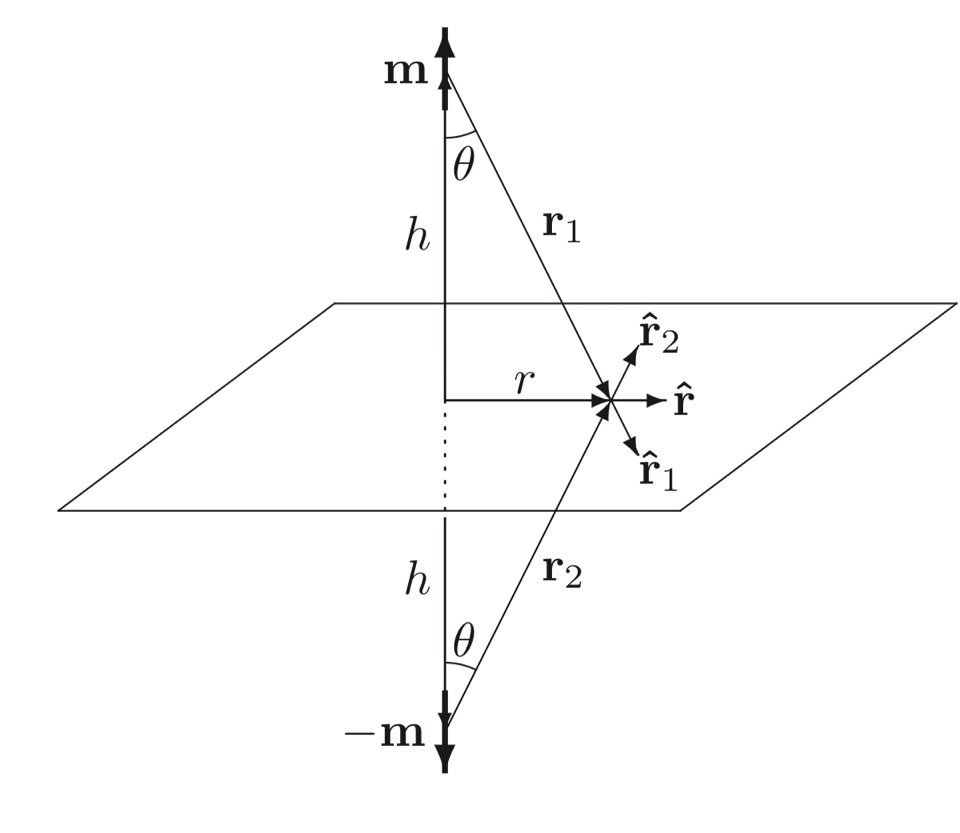 termpapaper1